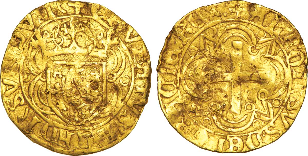 Cruzade d'Alphonse V dit l'africain Description avers : Écu portant l’écu du Portugal brochant sur une croix tréflé et cantonné de quatre tours (Castille) ; l’écu est accosté de quatre annelets . Traduction avers : (Cruzade d’Alphonse V) .